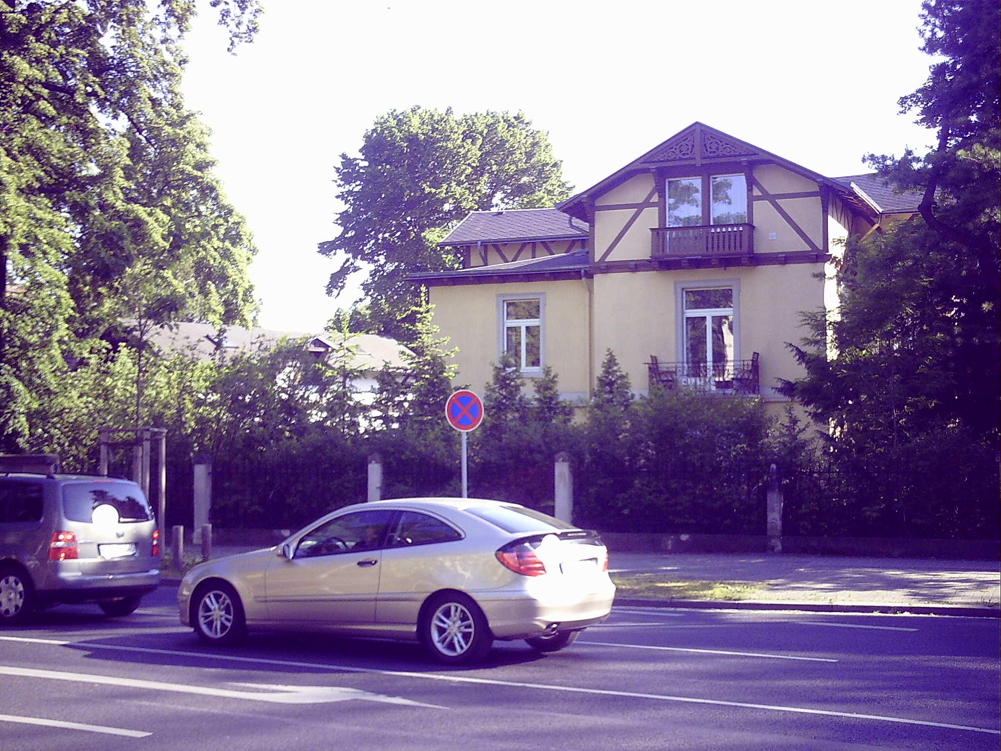 Photo of parcel Barteldesplatz 1, 01309 Dresden, Saxony, Germany.